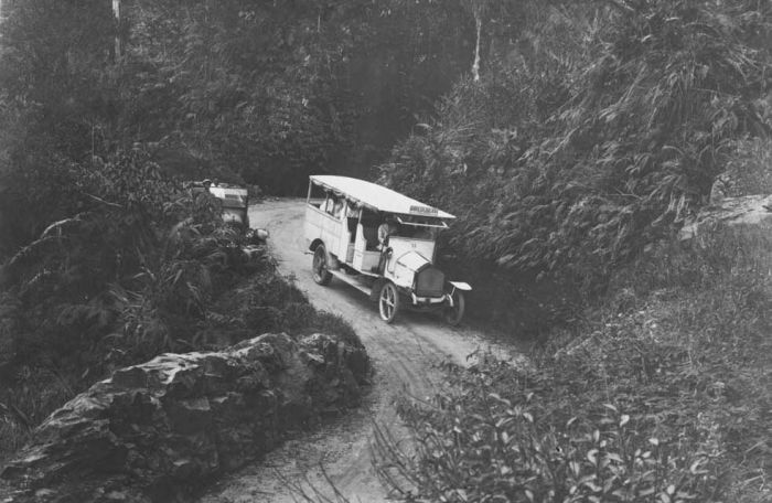 A bus of the Government Car Service at the Sibolga - Balige busroute